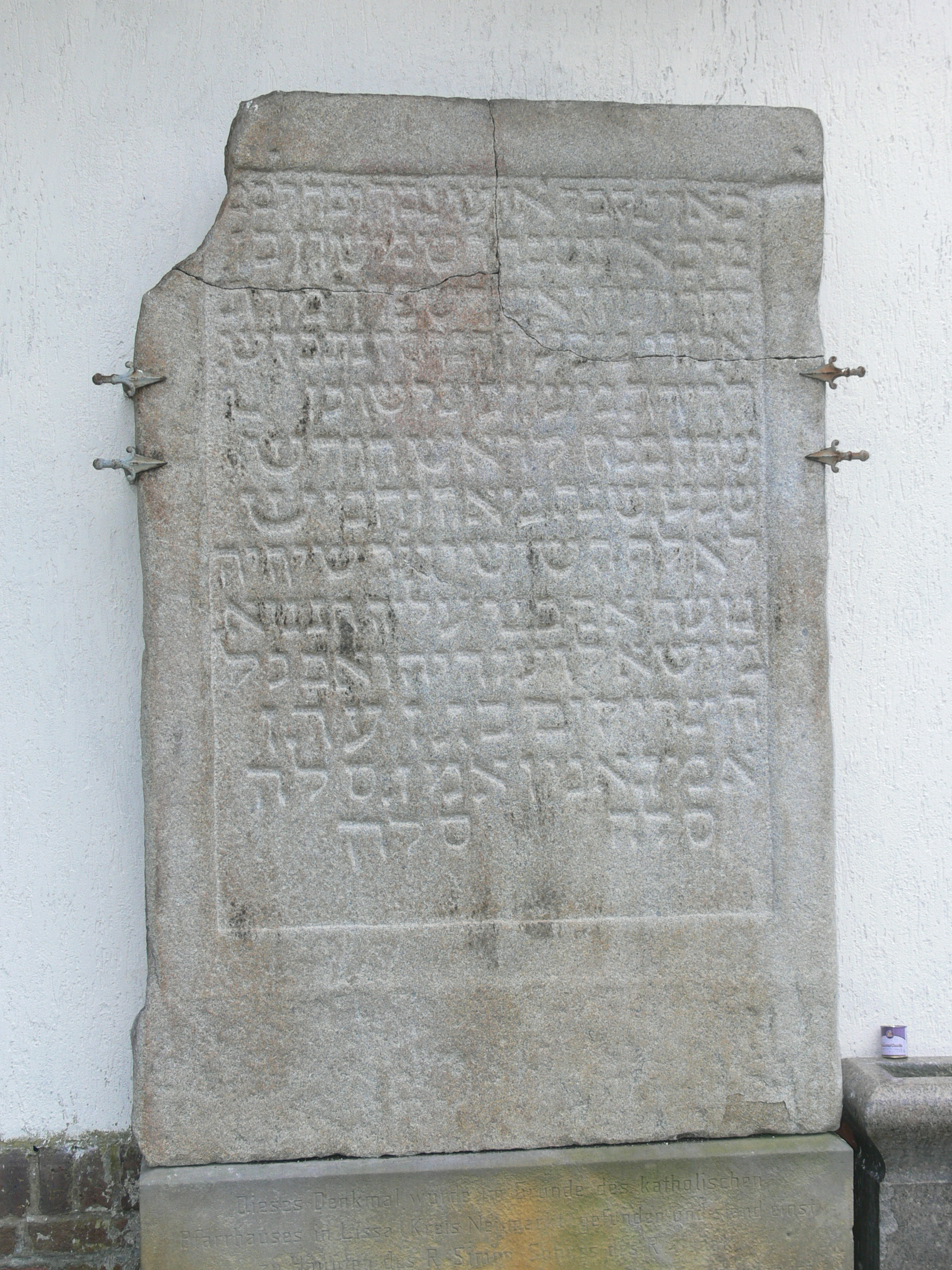 Tombstone dated 1345 (Old Jewish Cemetery of Wroclaw)